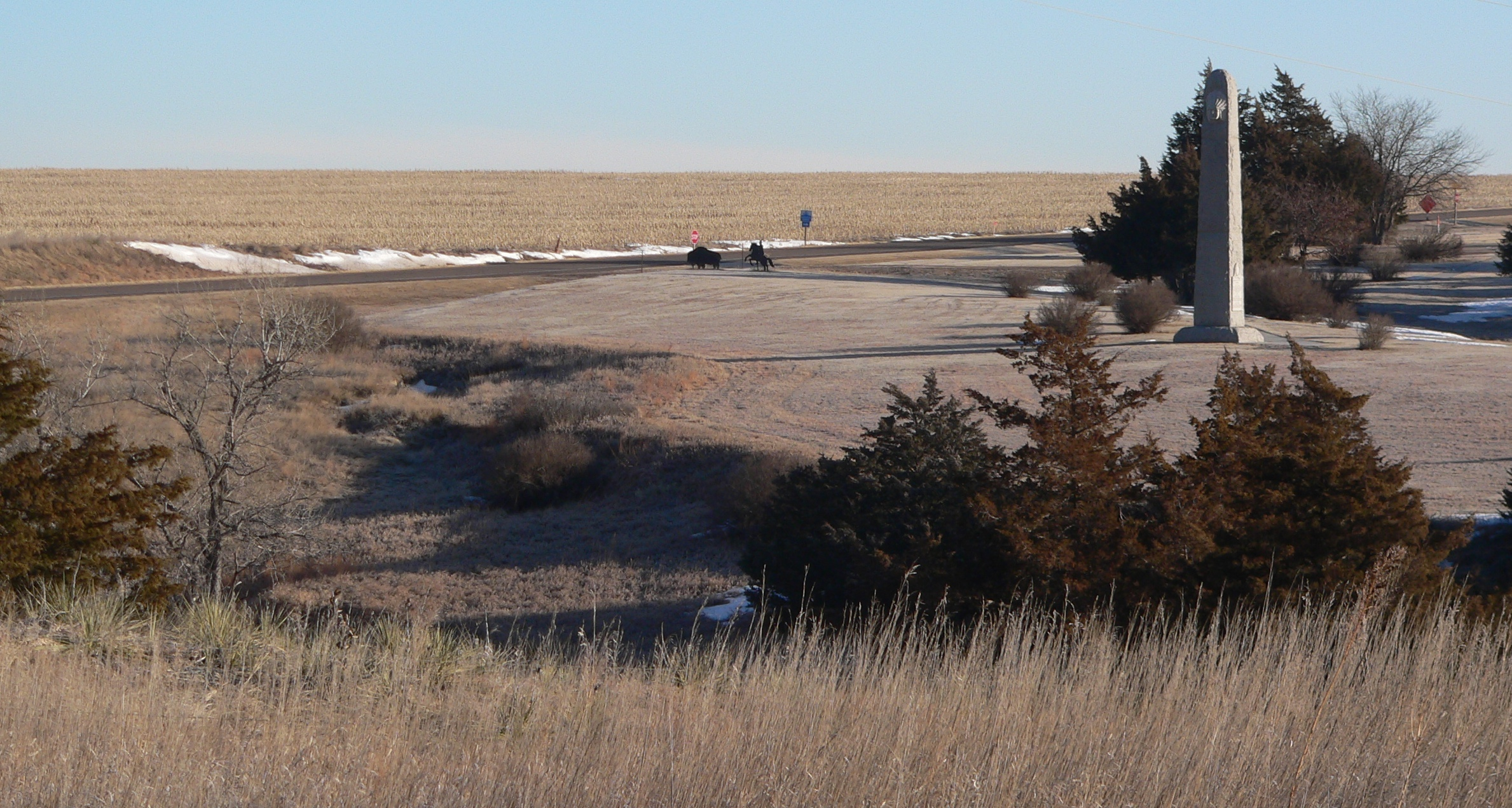 Massacre Canyon monument, on south side of U.S. Highway 34 northeast of Trenton, Nebraska; seen from the southwest. According a nearby historical marker, the monument was built in 1930.